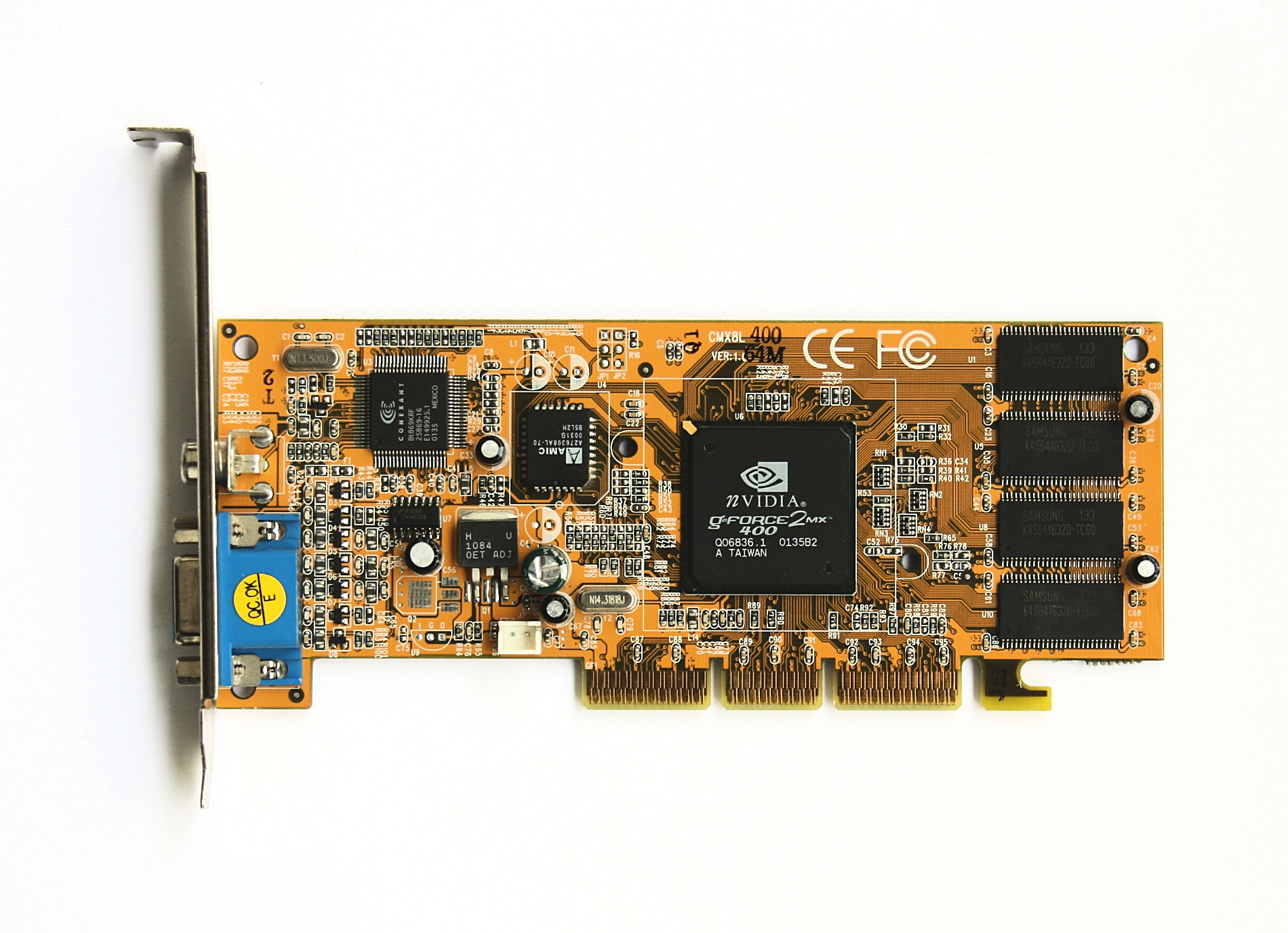 Graphics card Geforce2MX 400 w/o cooler